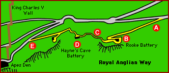 Royal Anglian Way from freely licensed